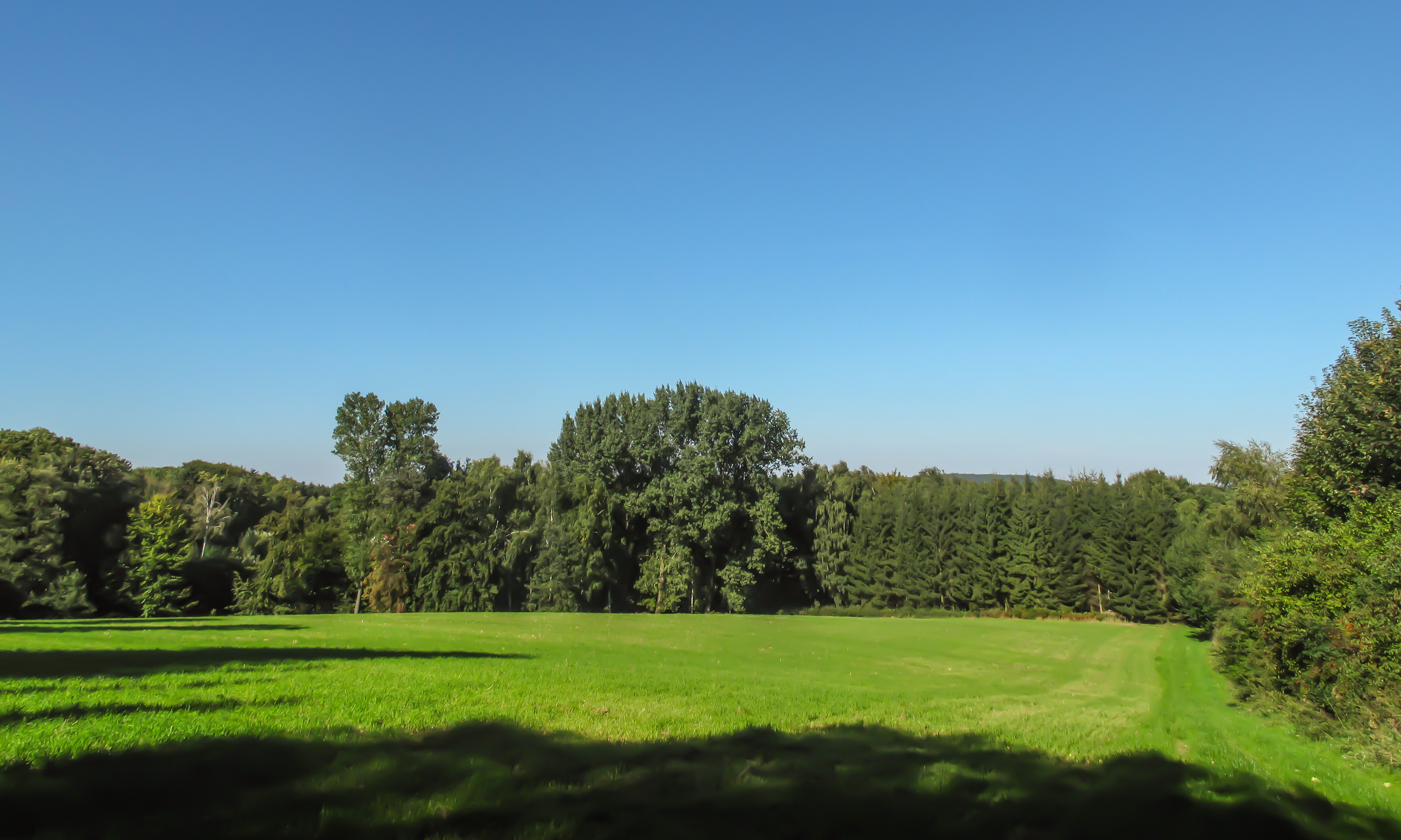 Oberholsten, panorama